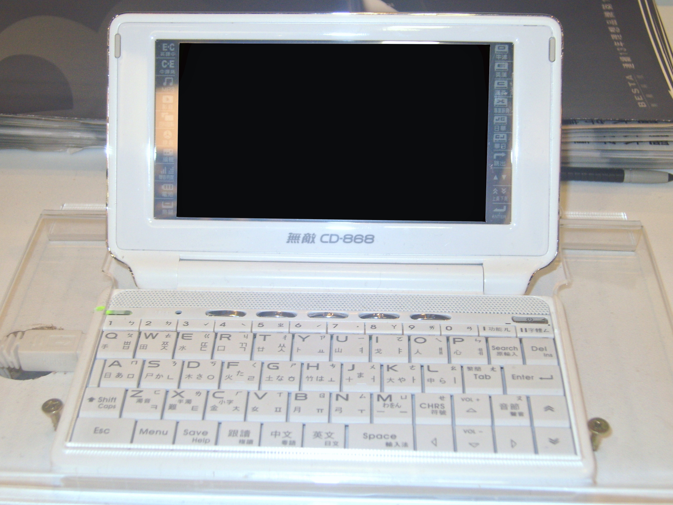 2008 Taipei IT Month: Besta CD-868.